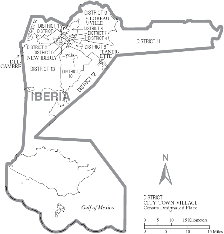 Map of Iberia Parish, Louisiana, United States with municipal and district boundaries